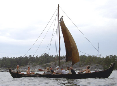 Himingläva, Viking boat